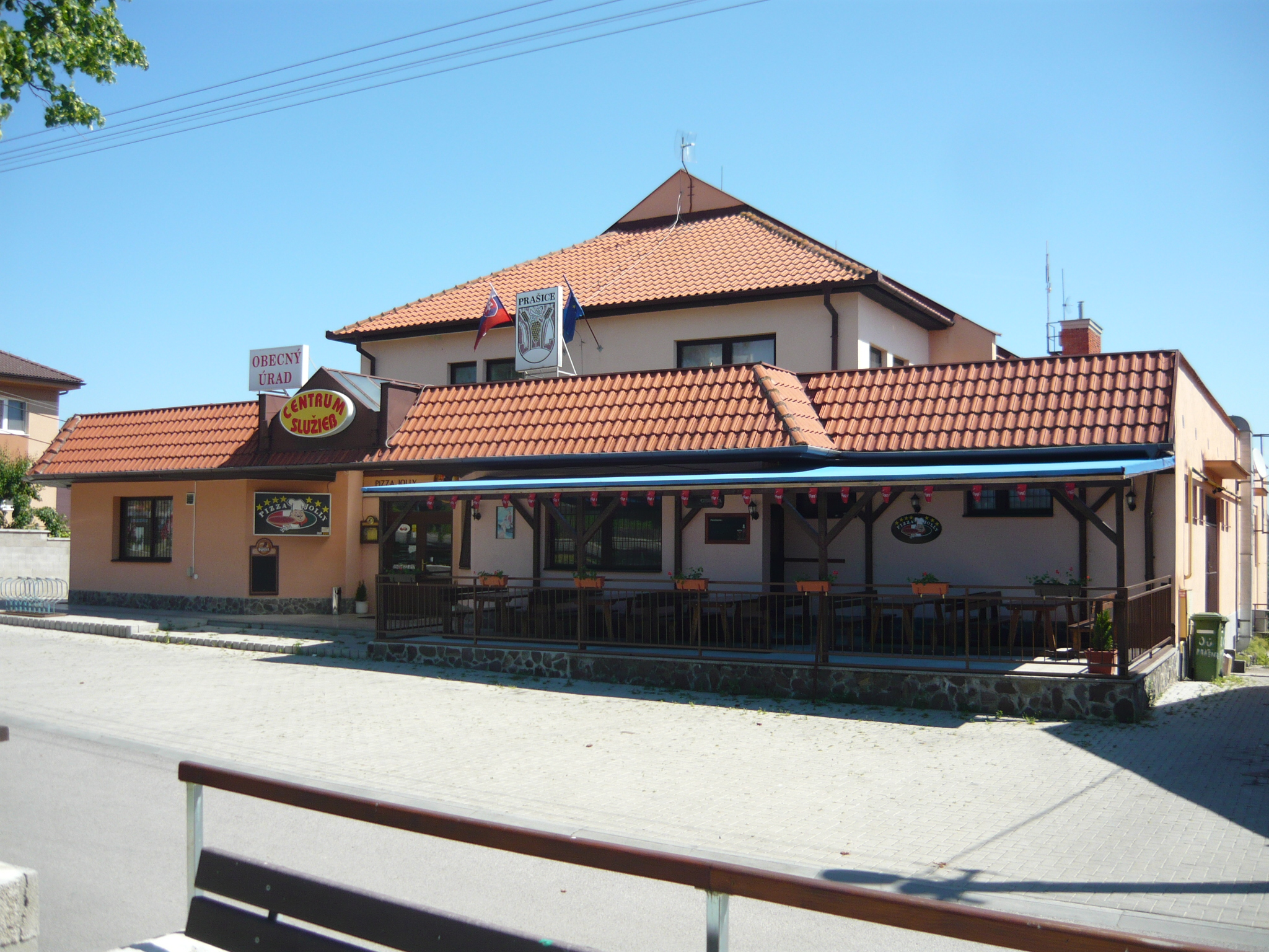 The town hall of Prašice, Slovakia.